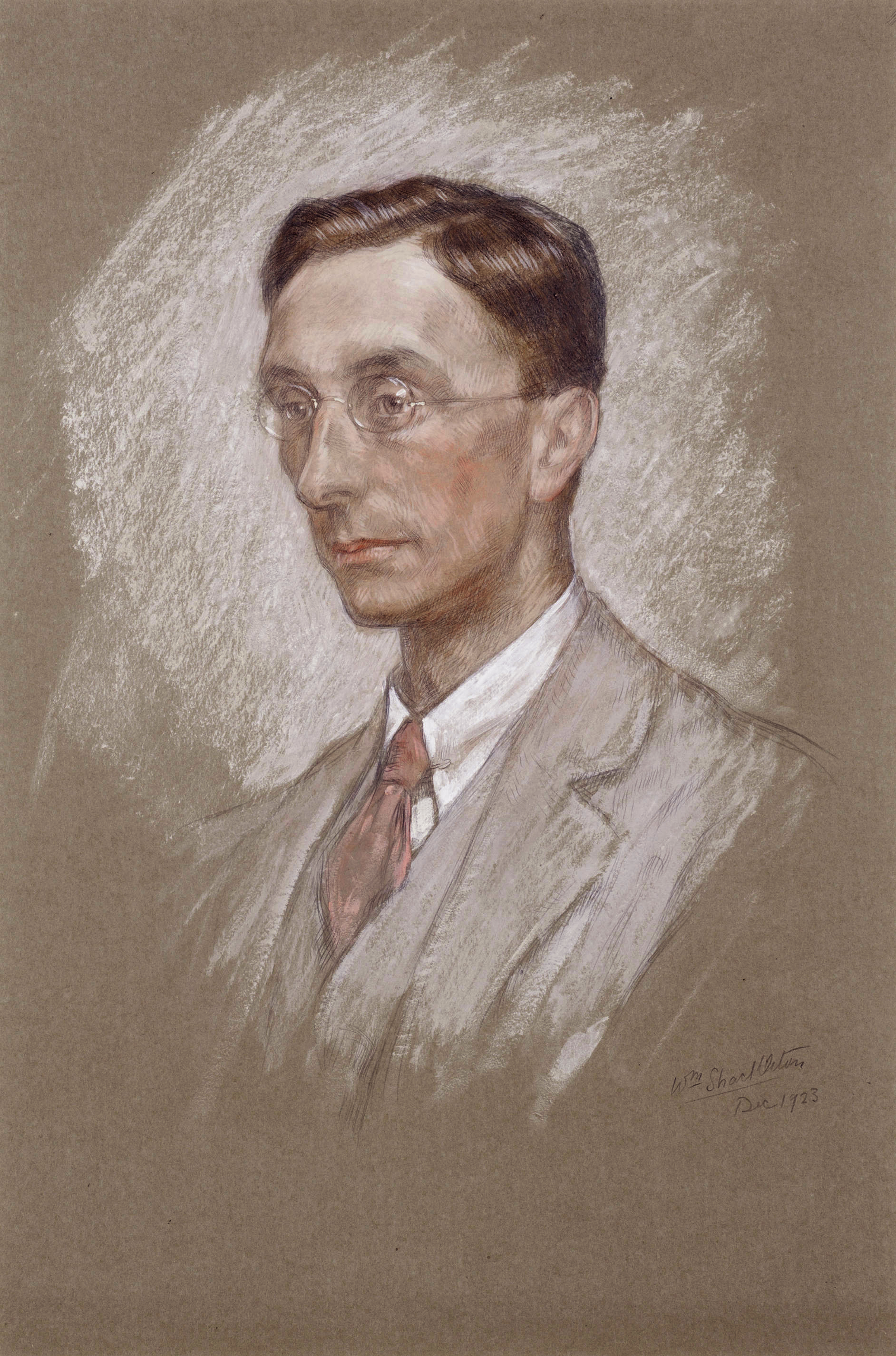 Richard Church (1893-1972) pastel and pencil 38 x 25.5 cm signed b.r.: Wm Shackleton / Dec 1923